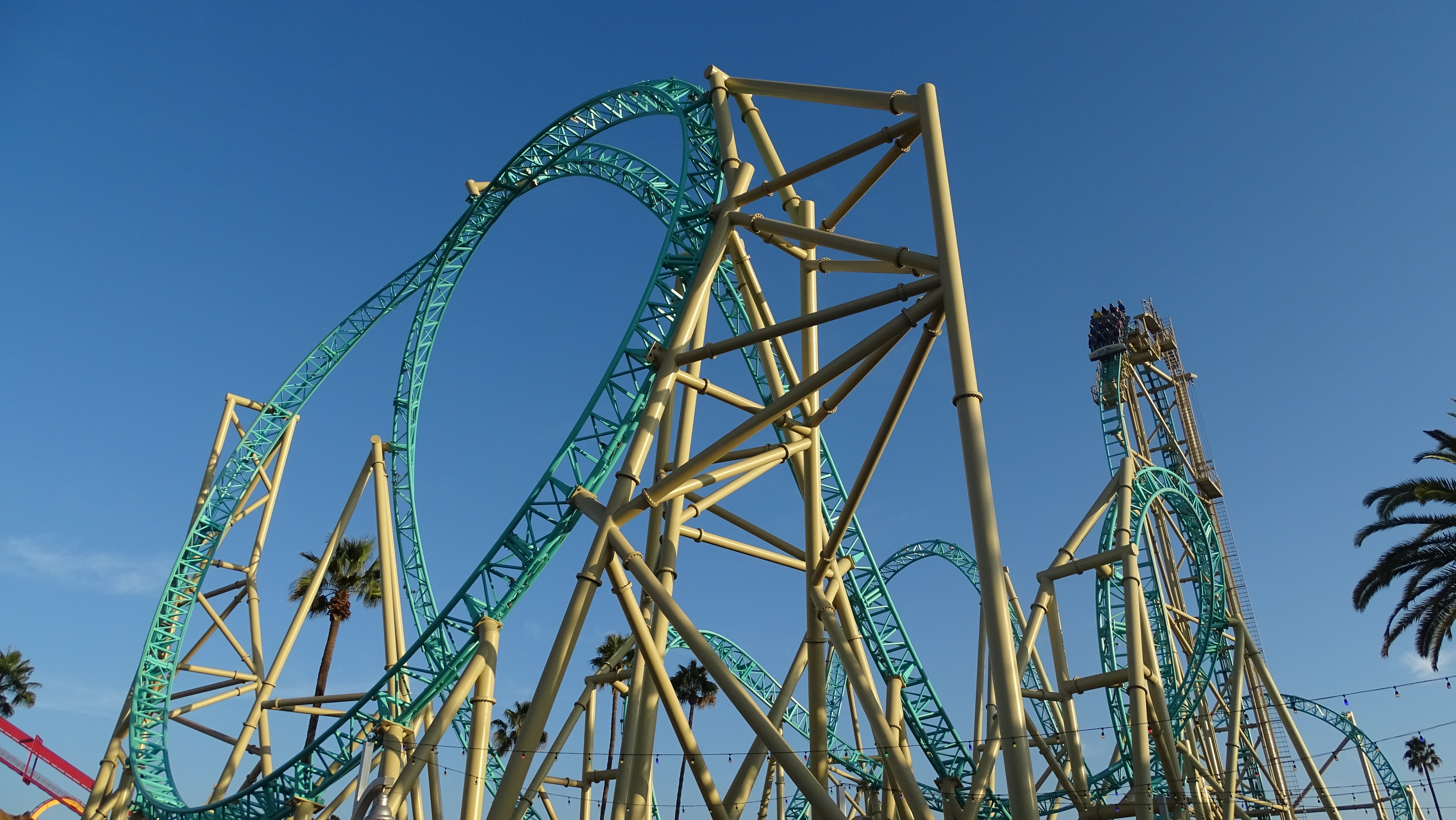 hangtime